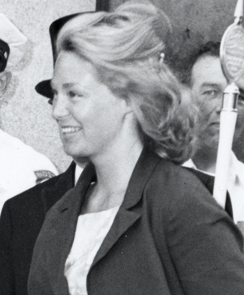 Title: Senator Ted Kennedy, Mayor John F. Collins, and Joan Bennett Kennedy Creator: A. Zambella Date: circa 1960-1968 Source: Mayor John F. Collins records, Collection #0244.001 File name: 244001_1313 Rights: Copyright status not evaluated Citation: Mayor John F. Collins records, Collection #0244.001, City of Boston Archives, Boston